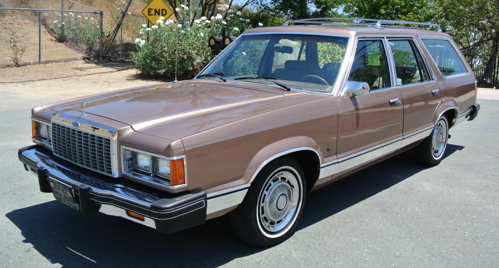 1982 Ford Granada station wagon. 1982 Granada wagons used the same body-shell as their Fairmont predecessor (1978-81) and LTD successor (1983-86). Unique front-end clips were the main exterior difference between the three vehicles.